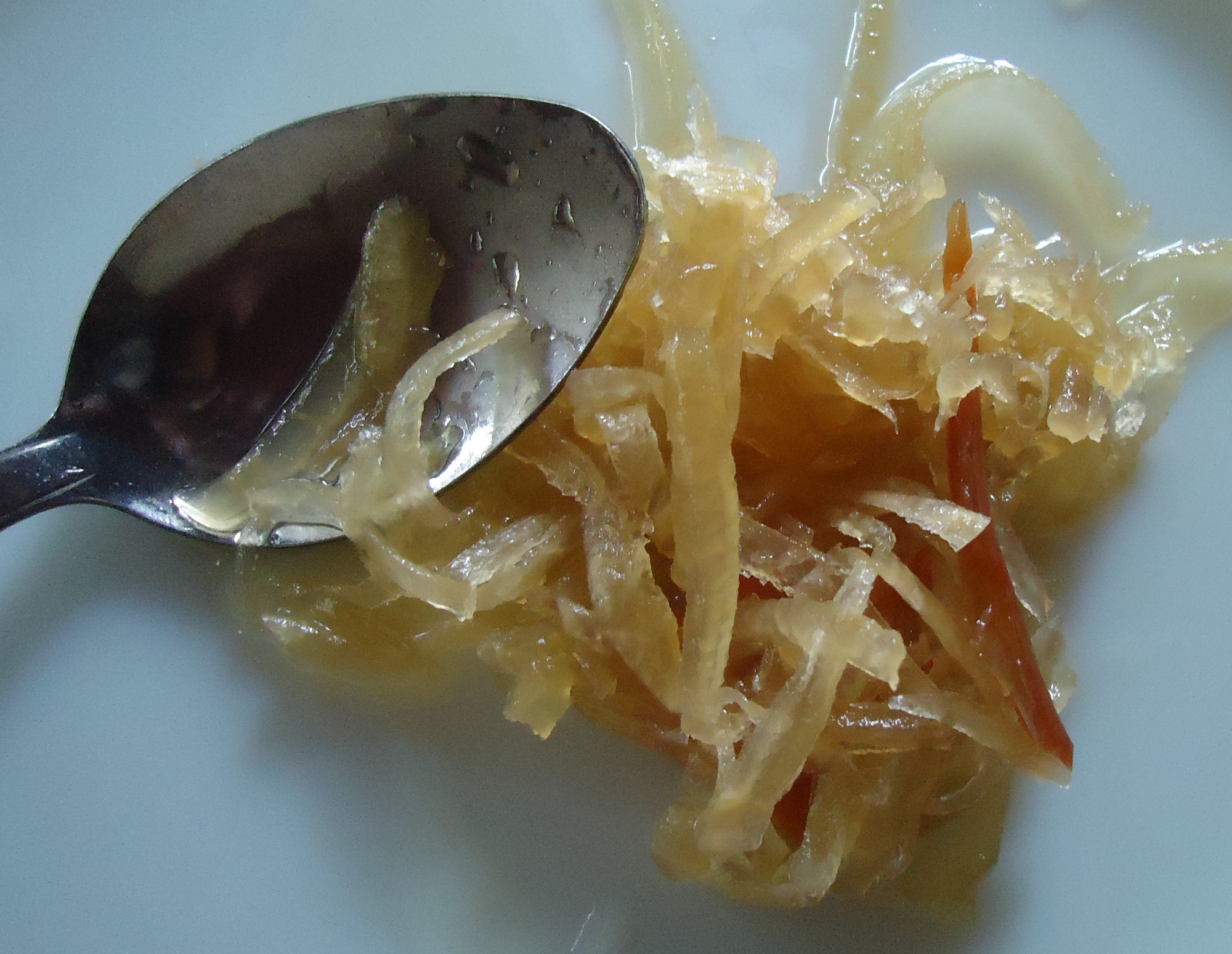 Achara or Atsara, a pickled appetizer in the Philippines made from Green Papaya.